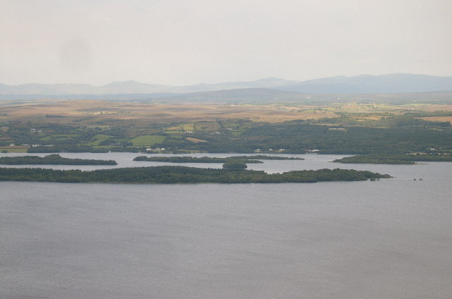 From Lough Navar Viewpoint across Lower Lough Erne to Castlecaldwell forest.